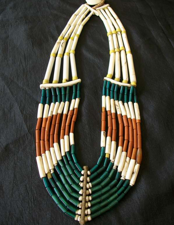 Antique Naga Tribal Beads from the Wovensouls Collection.